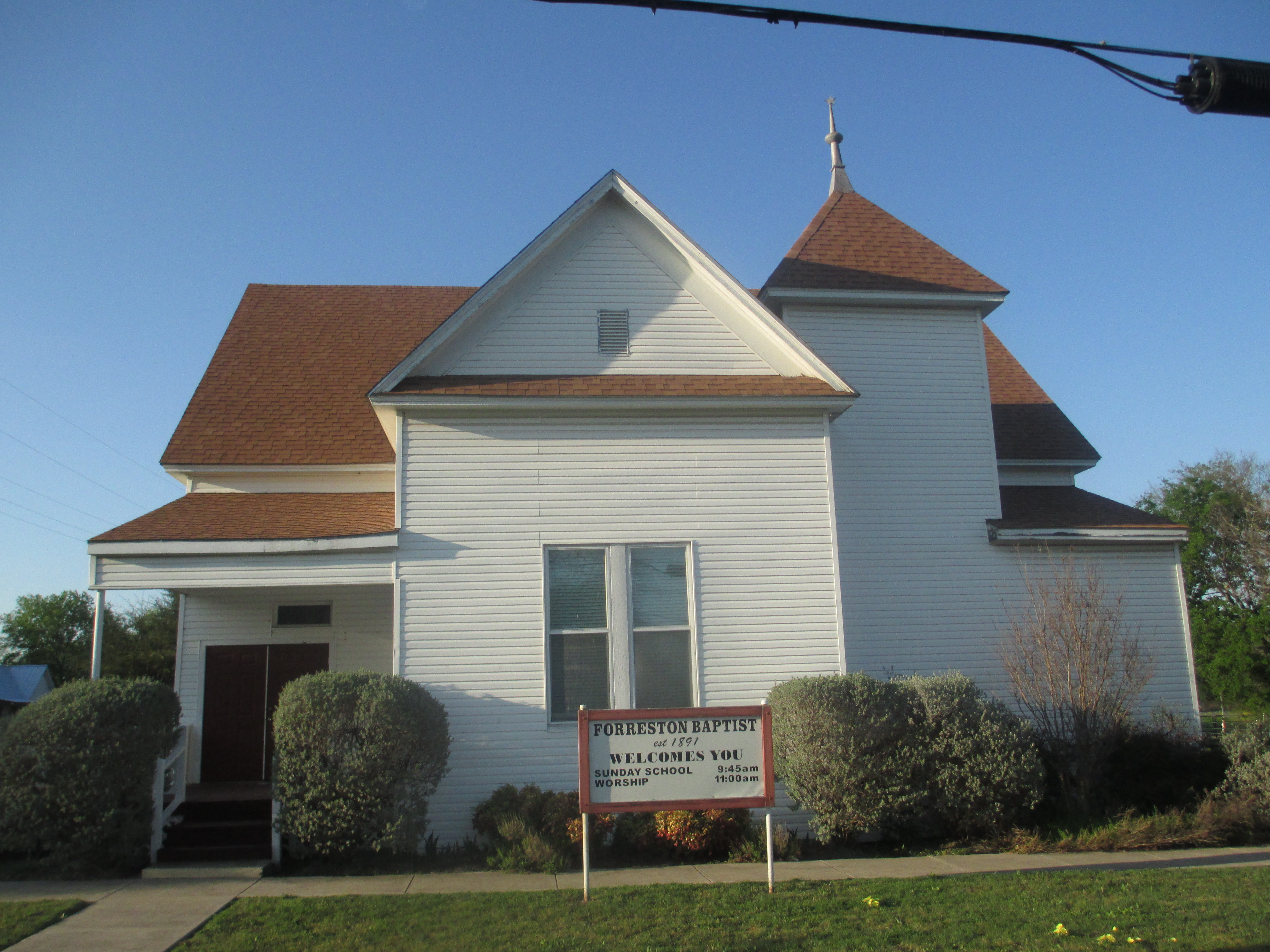 I took photo of Forreston, TX, First Baptist Church with Canon camera, March 31, 2013. Billy Hathorn (talk) 15:08, 12 April 2013 (UTC)